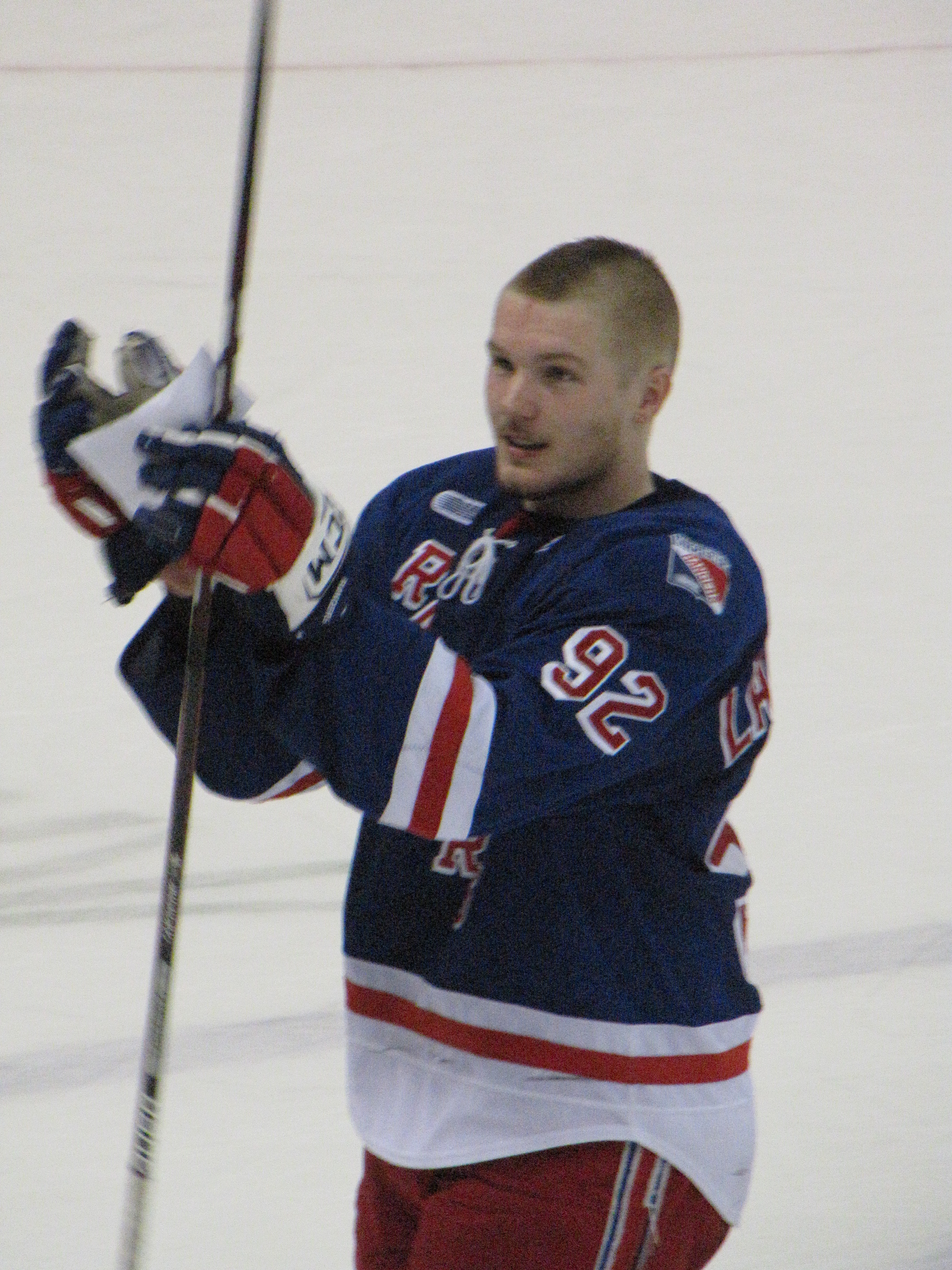 Gabriel Landeskog after receiving an MVP award following a playoff hockey game